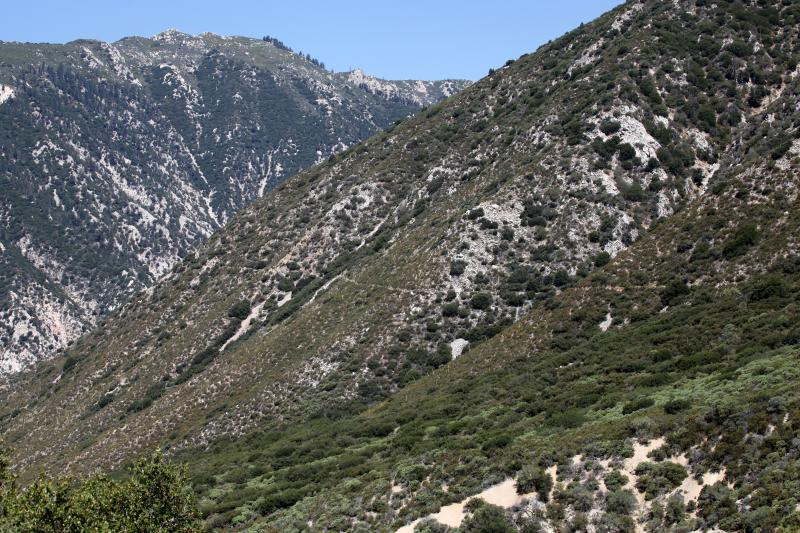 The ridgeline of the Siberia Creek Trail can be seen in the center of this photo. I have yet to hike the entire distance. Not a hike I plan on doing alone. Trail viewed from Seven Pines Rd. Bear Creek Canyon to left (west). Trail is labelled "Camp Creek NRT" on topo map. NRT continues to a trailhead near Snow Valley Ski Area, atop ridgeline in background to left.